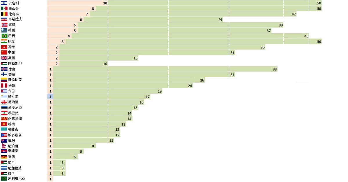 This graph shows countries ordered by number of Academy Award nominees for Best Foreign Language Film (without winners)